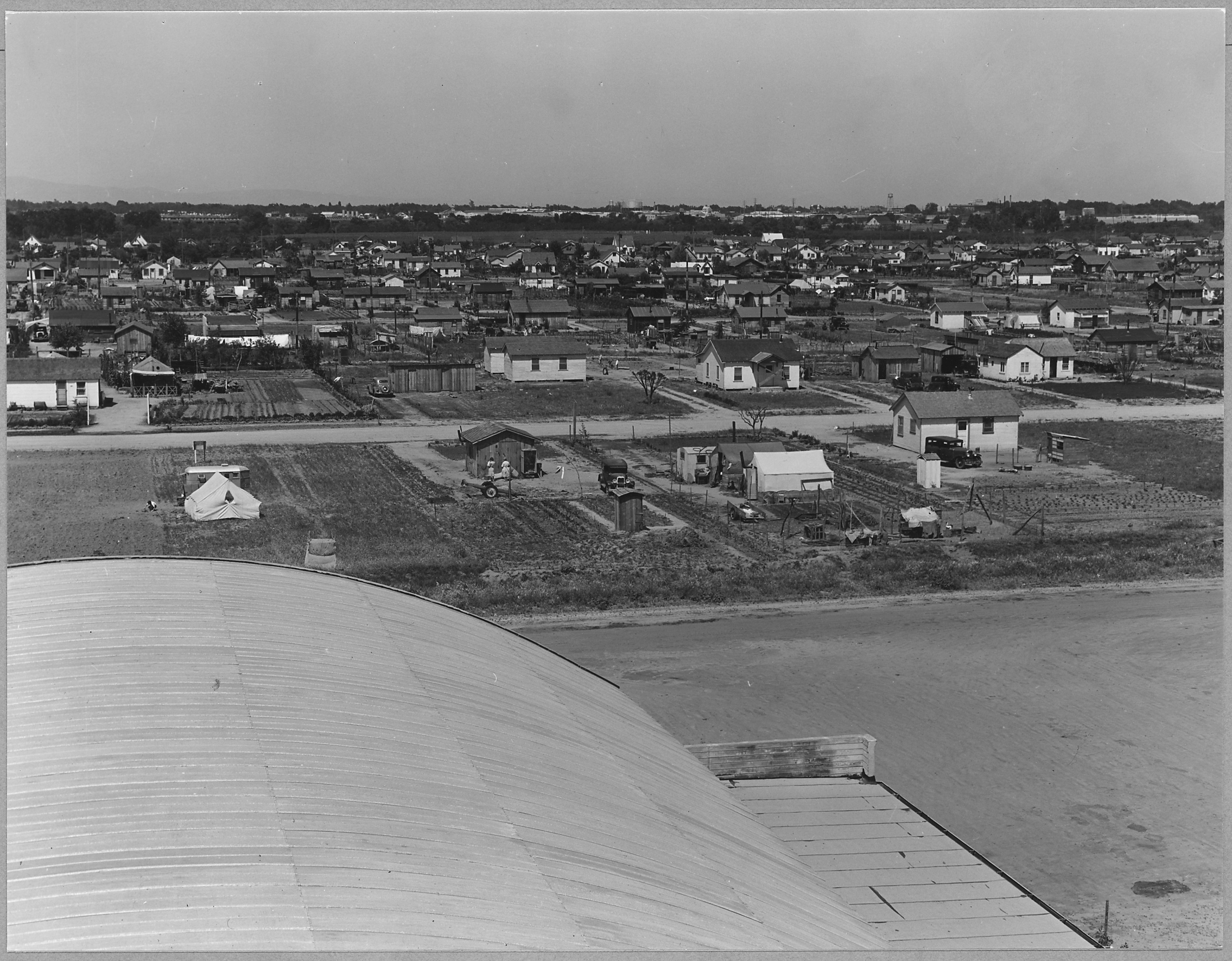 Scope and content: Full caption reads as follows: Airport tract, near Modesto, Stanislaus County, California. Part of the airport tract. View seen from the roof of hanger looking West. 'Four years ago this Spring when we came here there was two houses. The next Sunday there was seven. Now the mailman delivers to upwards of 800 families.'